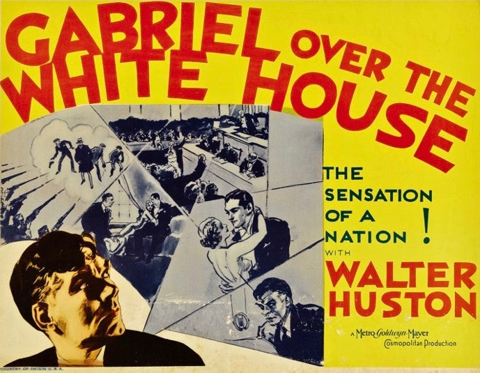 Lobby card for the American political fantasy film Gabriel Over the White House (1933)